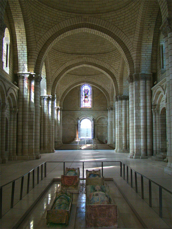 Fontevraud Abbey, Maine-et-Loire, Pays de la Loire, France. Nave of the abbey church of St. Mary. In the foreground, the effigies of Richard I of England, Isabella of Angoulême, Henry II of England and Eleanor of Aquitaine (from right to left, front to back).